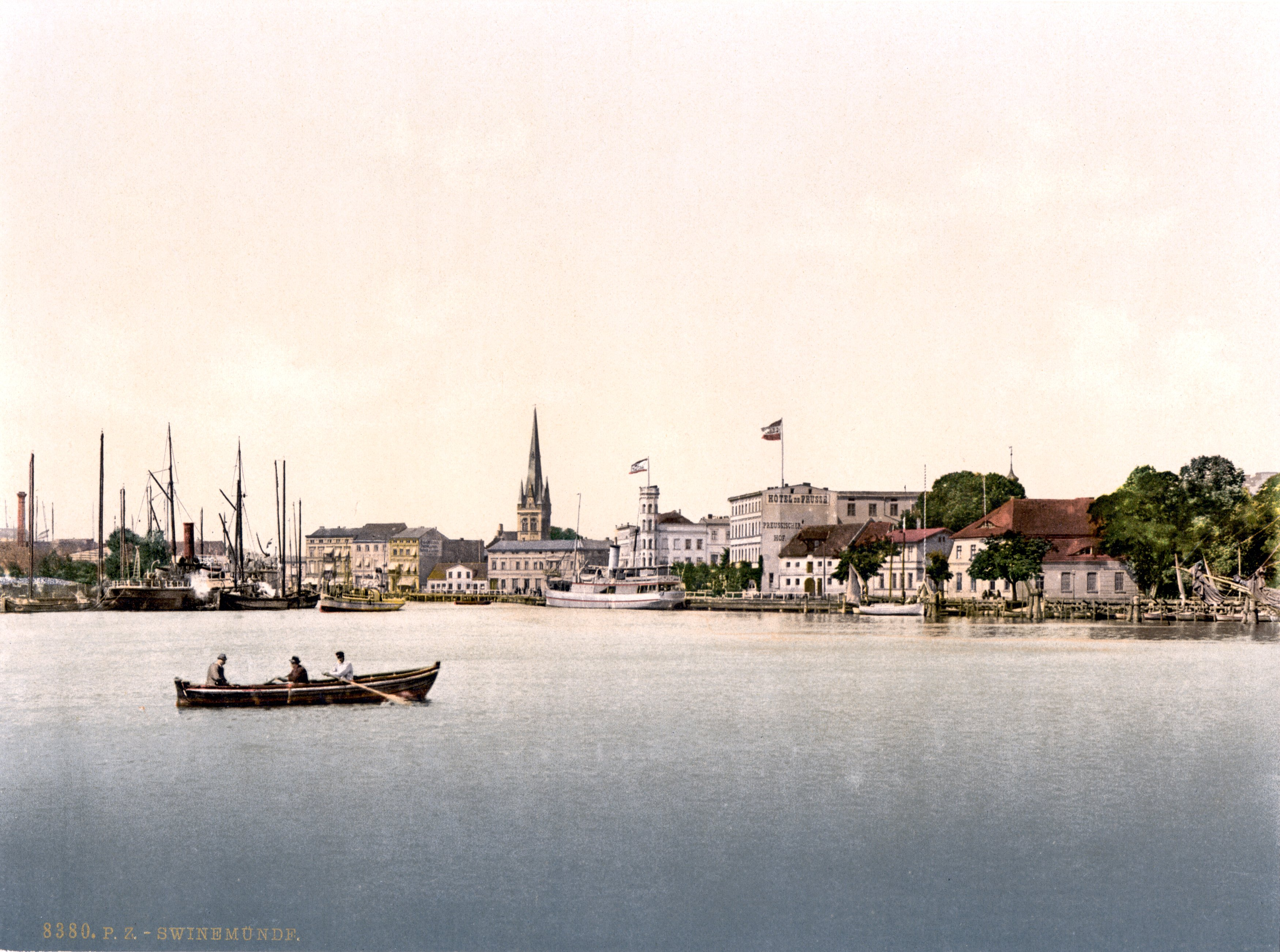 Swinoujscie, Poland circa 1890-1900 (at the time Swinemünde, Germany)